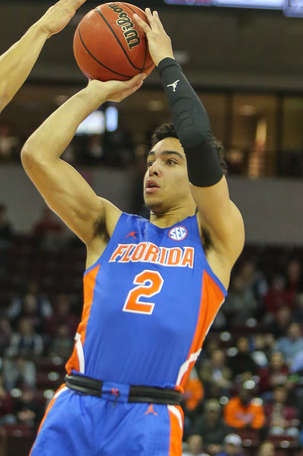 Photo by Chris Gillespie